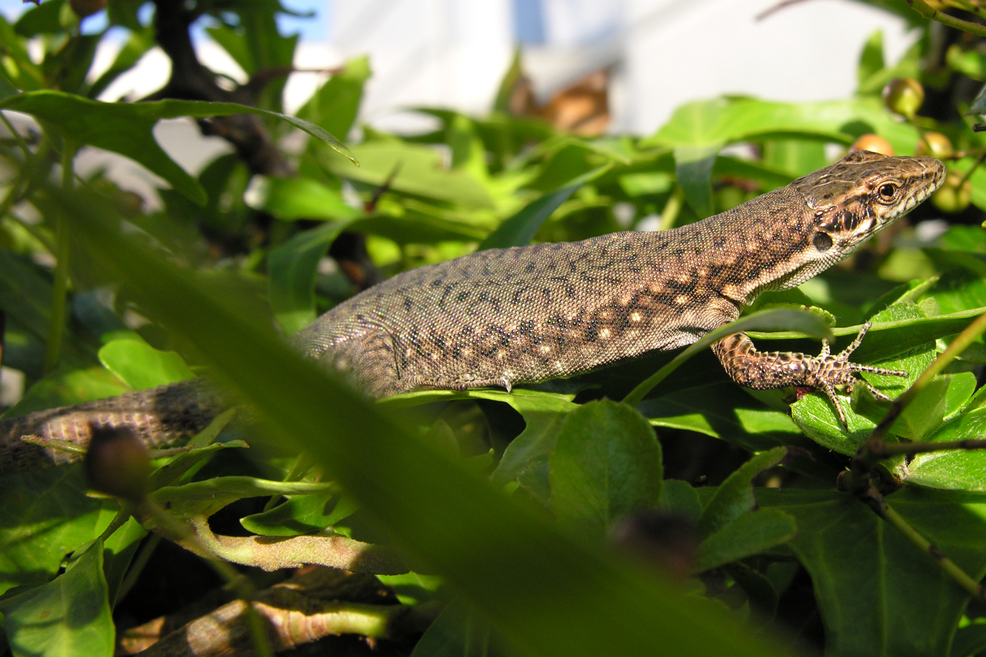 Sunning Darevskia dahli